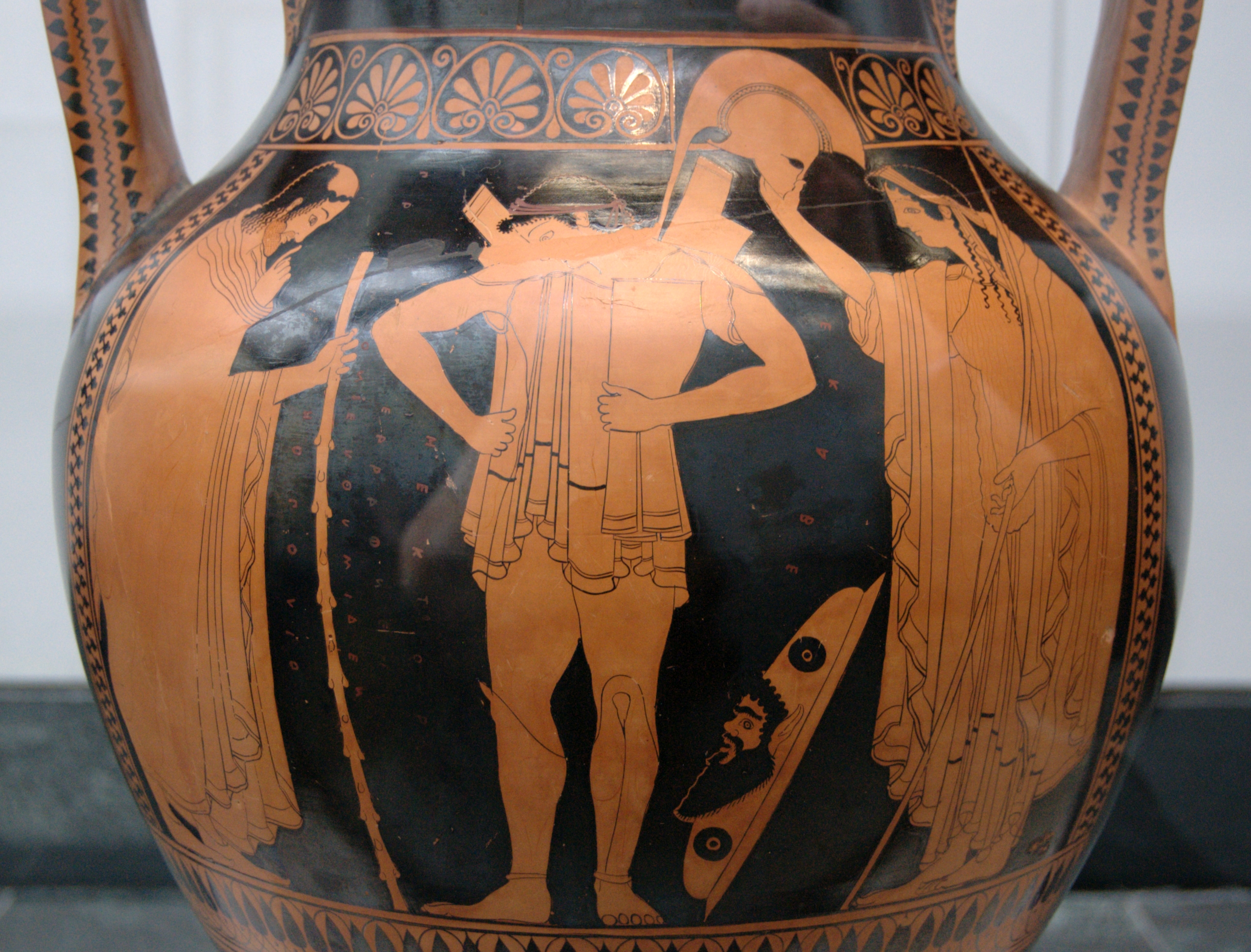 Hector putting his armor on, surrounded by Priam and Hecuba. Side A of an Attic red-figure amphora, ca. 510 BC. From Vulci.